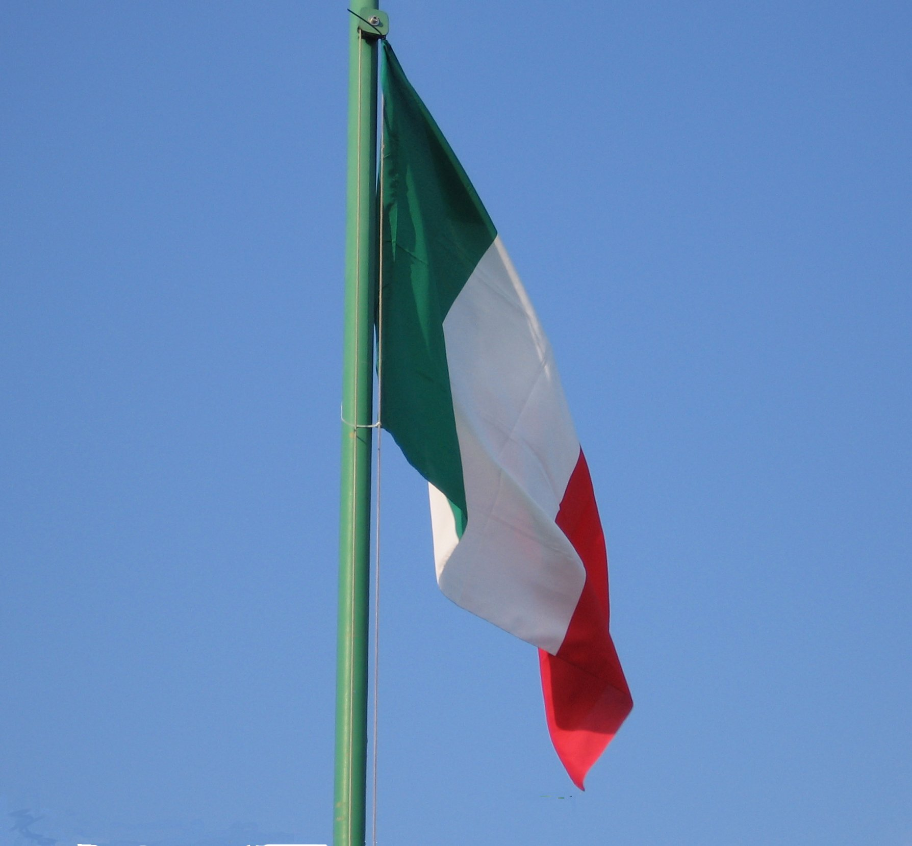 Flag of Italy